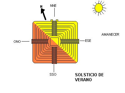 Kukulcán summer-solstice